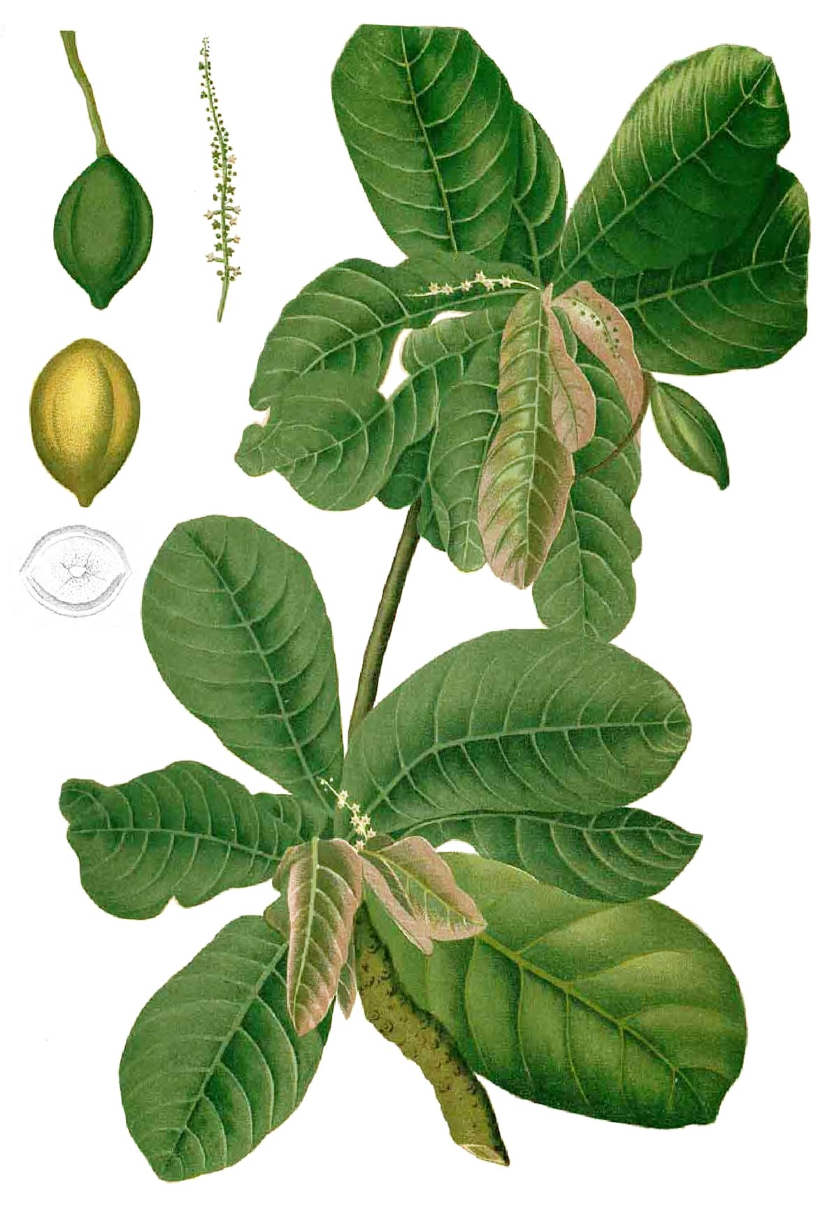 Plate from book